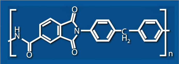 Полиамид-имид Kermel